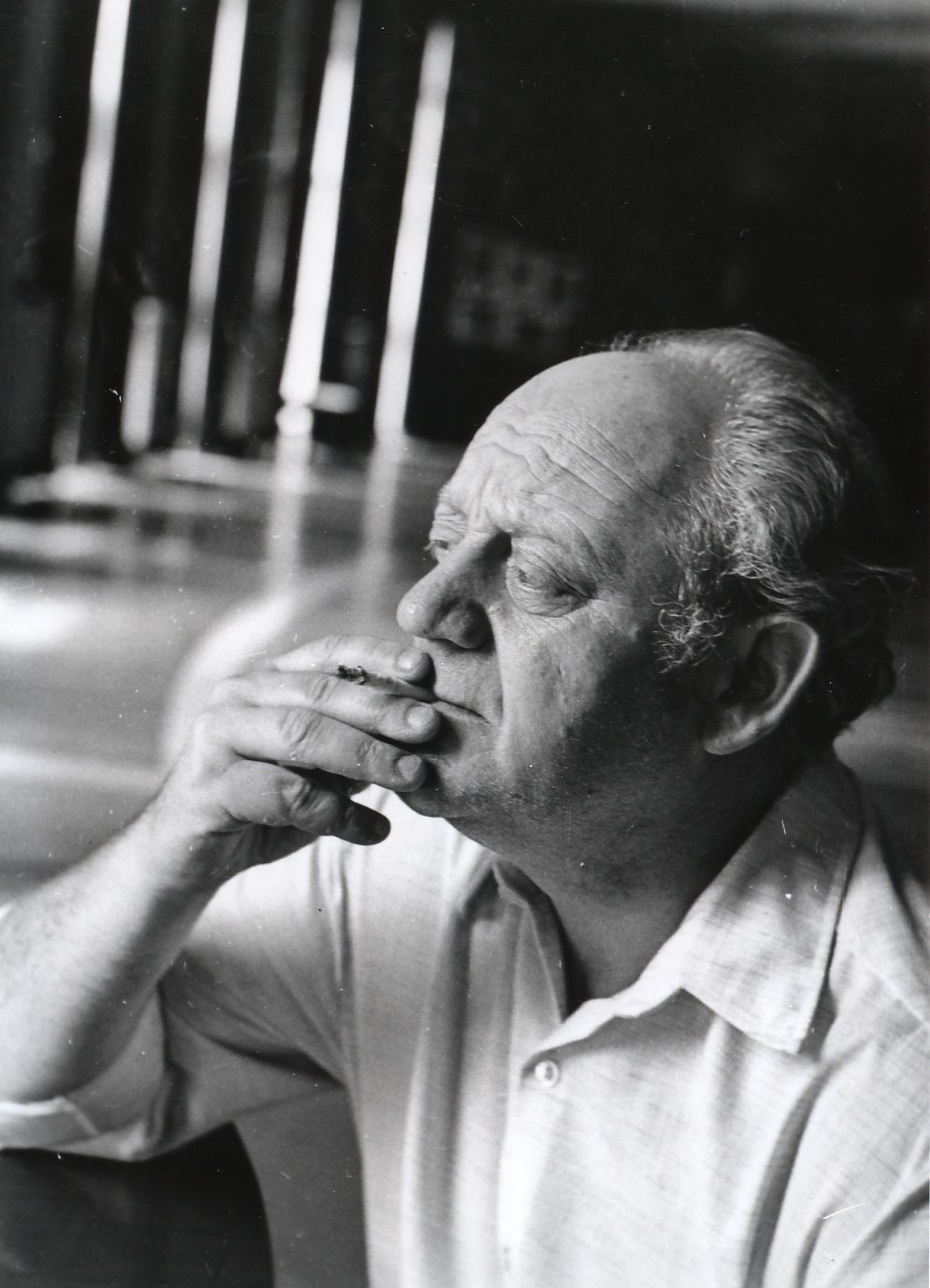 György Harag (1925-1985) Hungarian theater director and actor from Transylvania